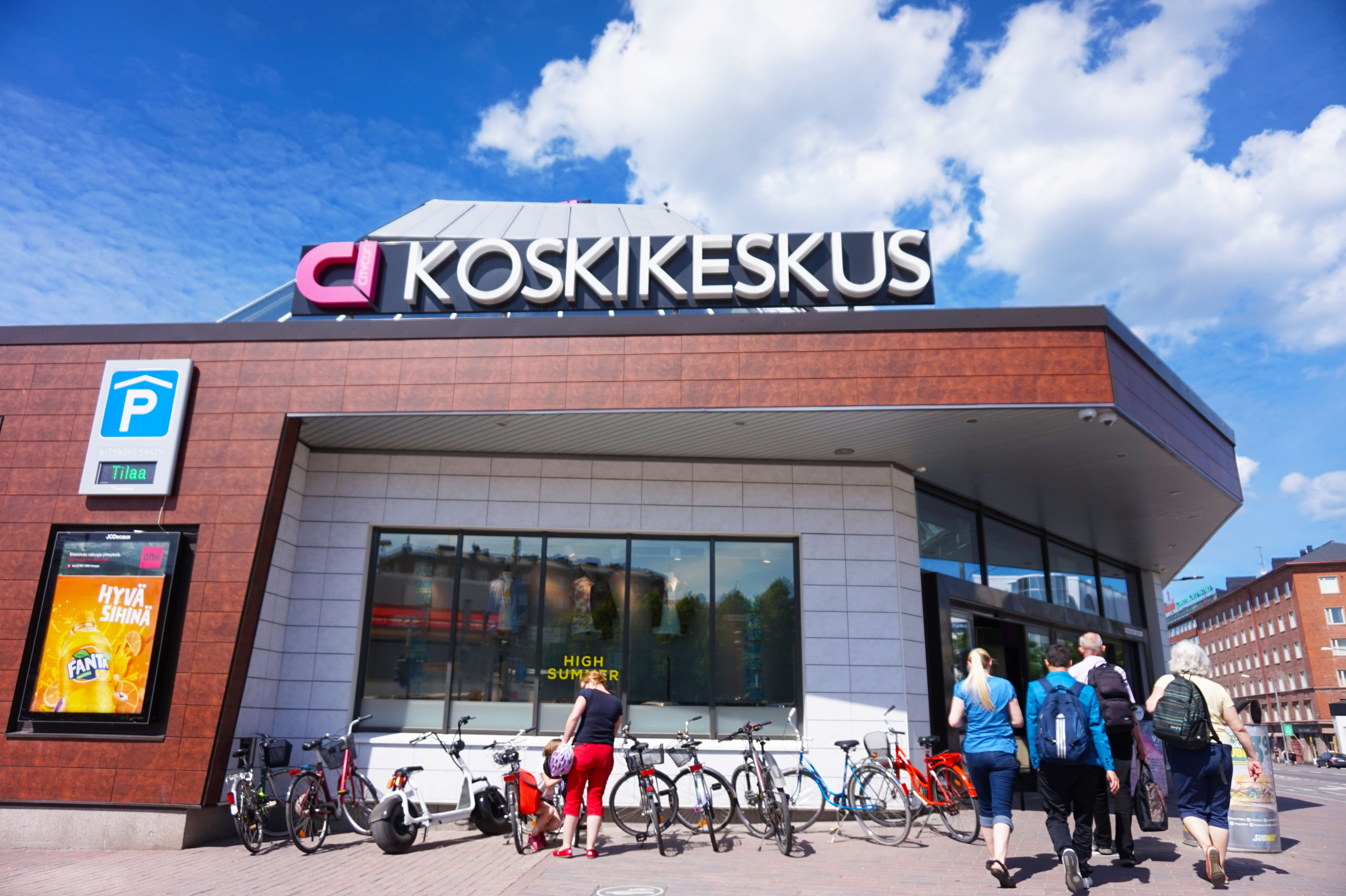 The shopping mall Koskikeskus in Tampere, Finland